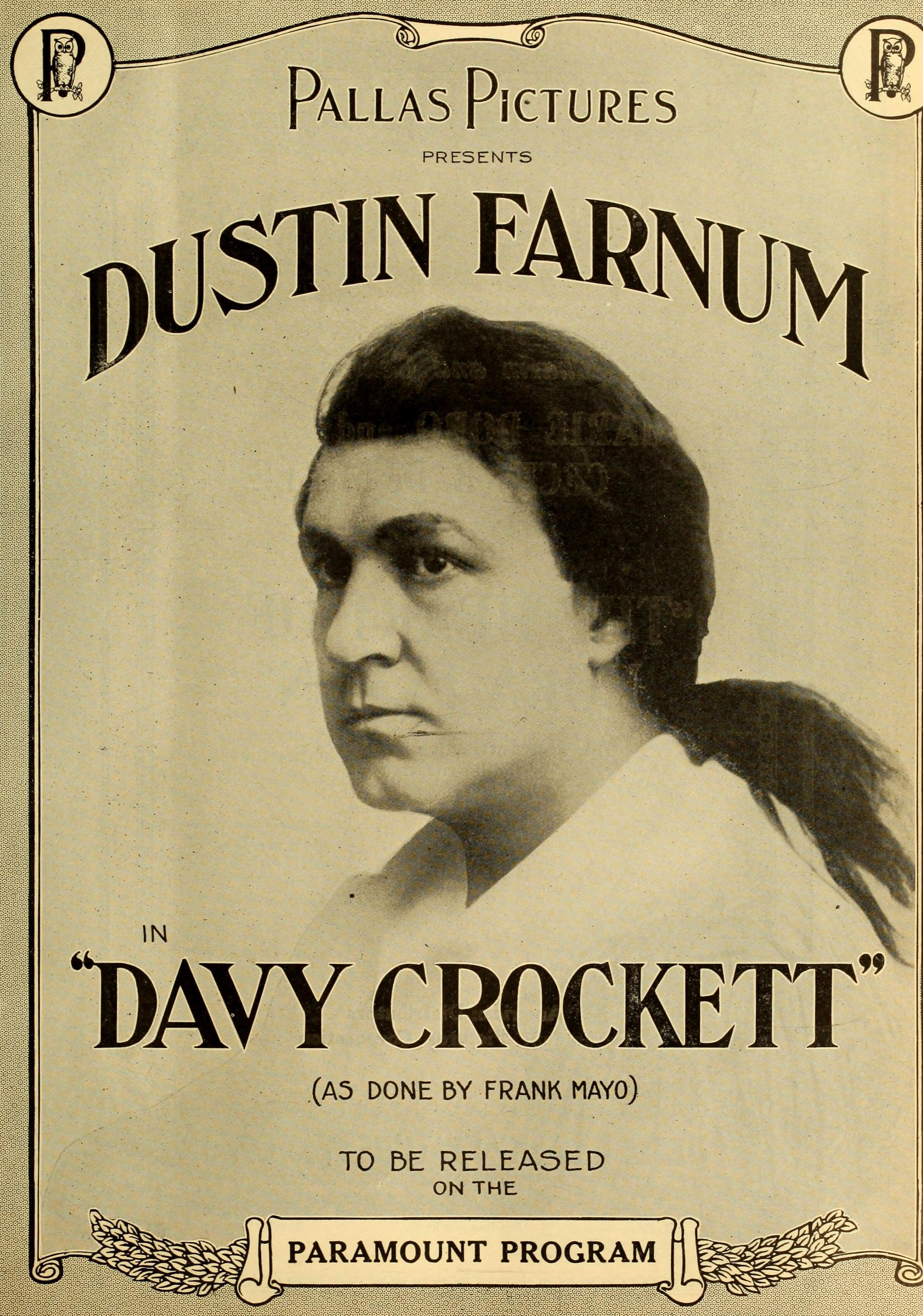 Advertisement in The Moving Picture World for the American film Davy Crockett (1916).